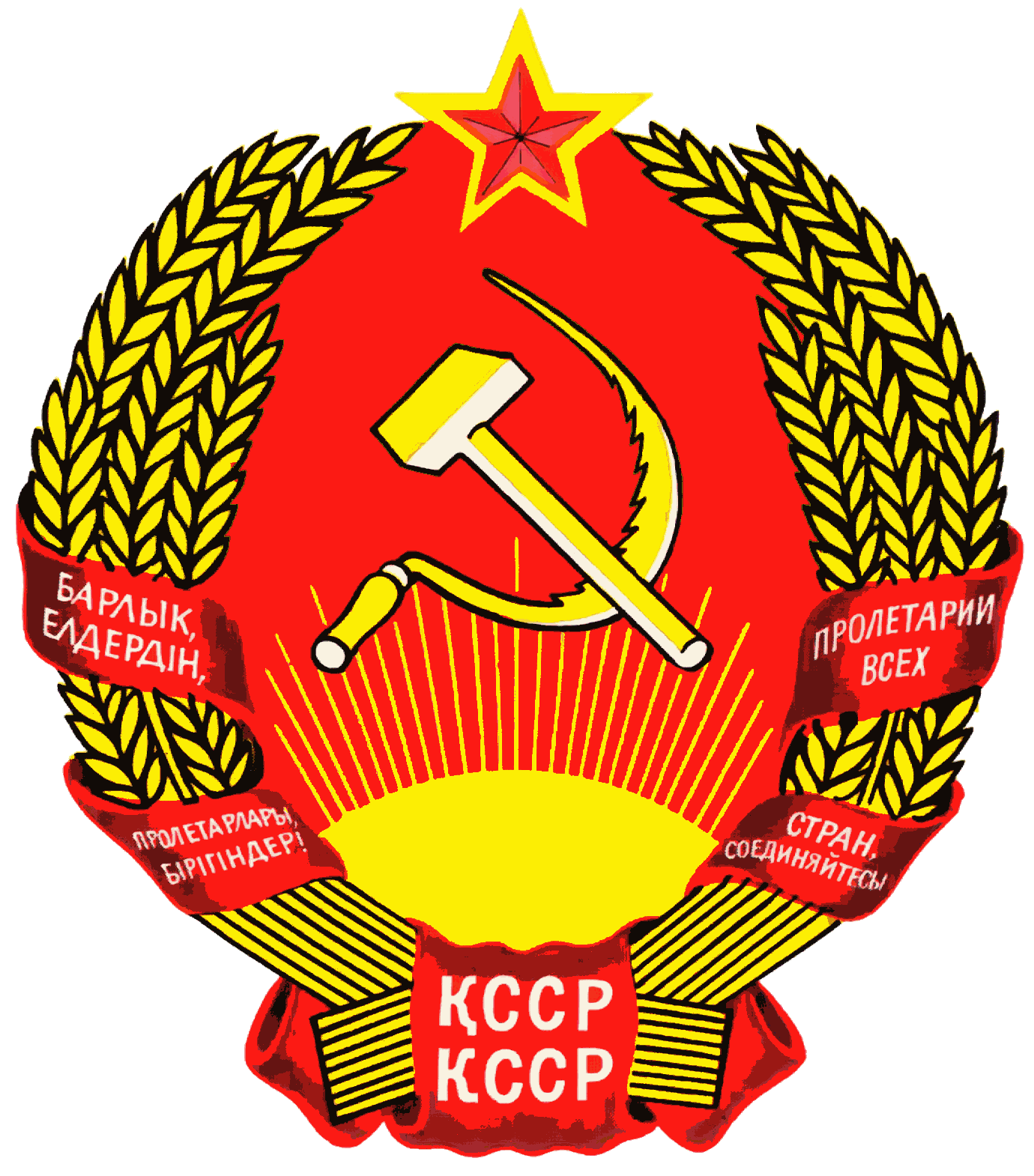 Coat_of_arms_of_Kazakh_SSR.png